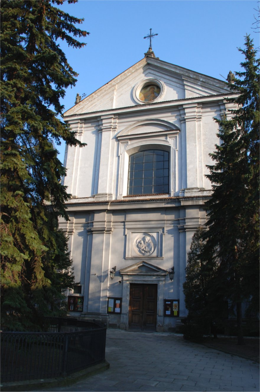 Church of St. Anthony of Padua, situated in Warsaw (Senatorska Str.)